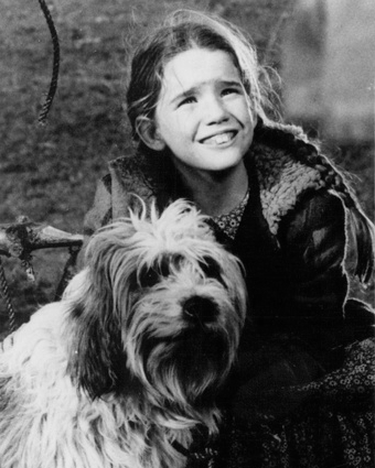 Publicity photo of child actress Melissa Gilbert promoting her role on the television series Little House on the Prairie.